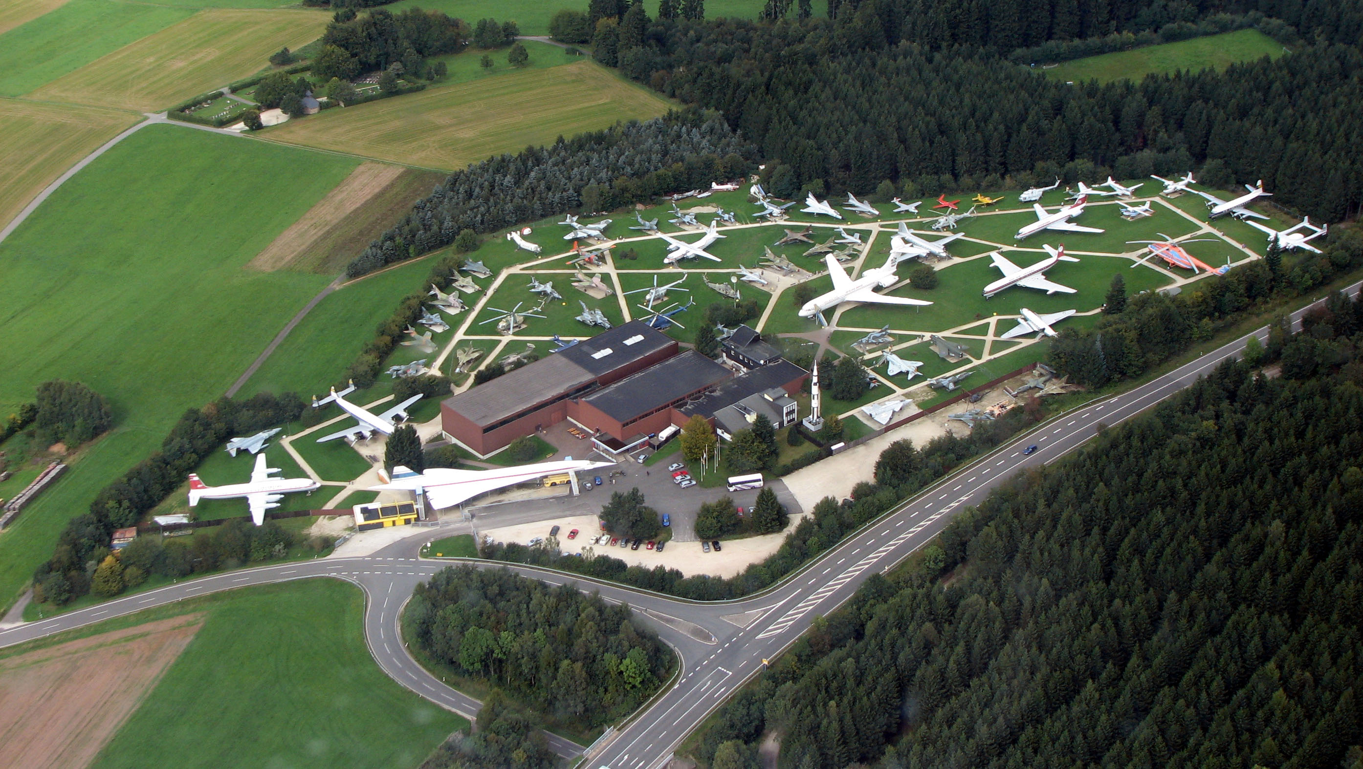 Aircraft exhibition, Hermeskeil, Rhineland-Palatinate, Germany